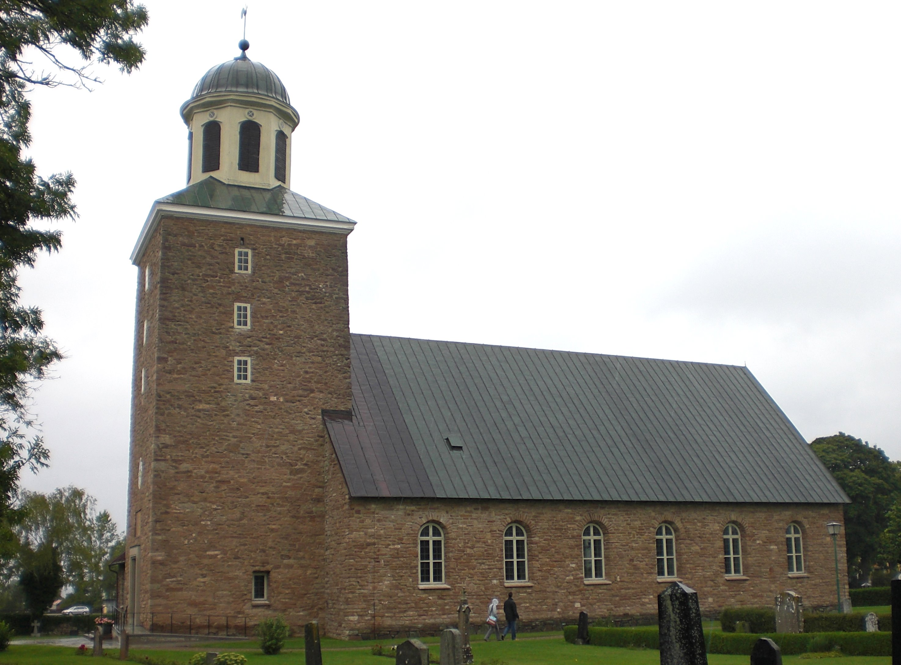 Church, Köpingsvik